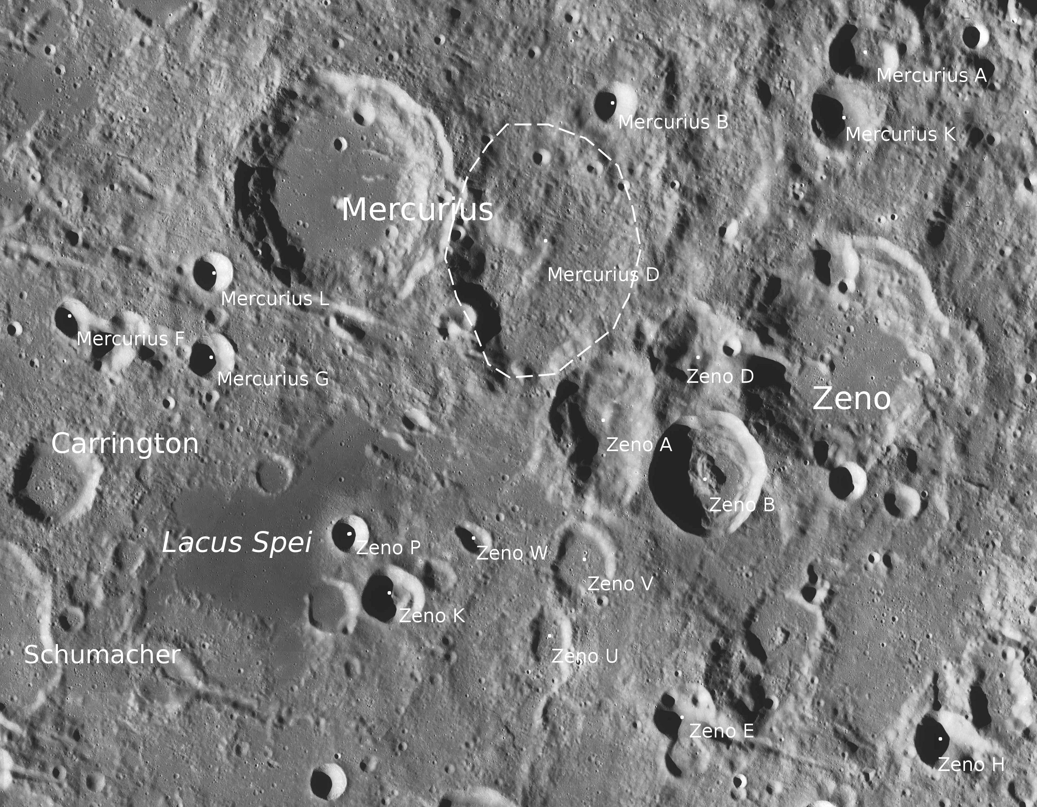 Lacus Spei with craters Carrington, Mercurius and Zeno (detail of LRO - WAC global moon mosaic; Mercator projection)